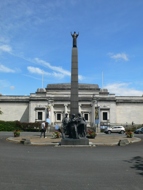 Photograph of the Leverhulme Memorial, Port Sunlight